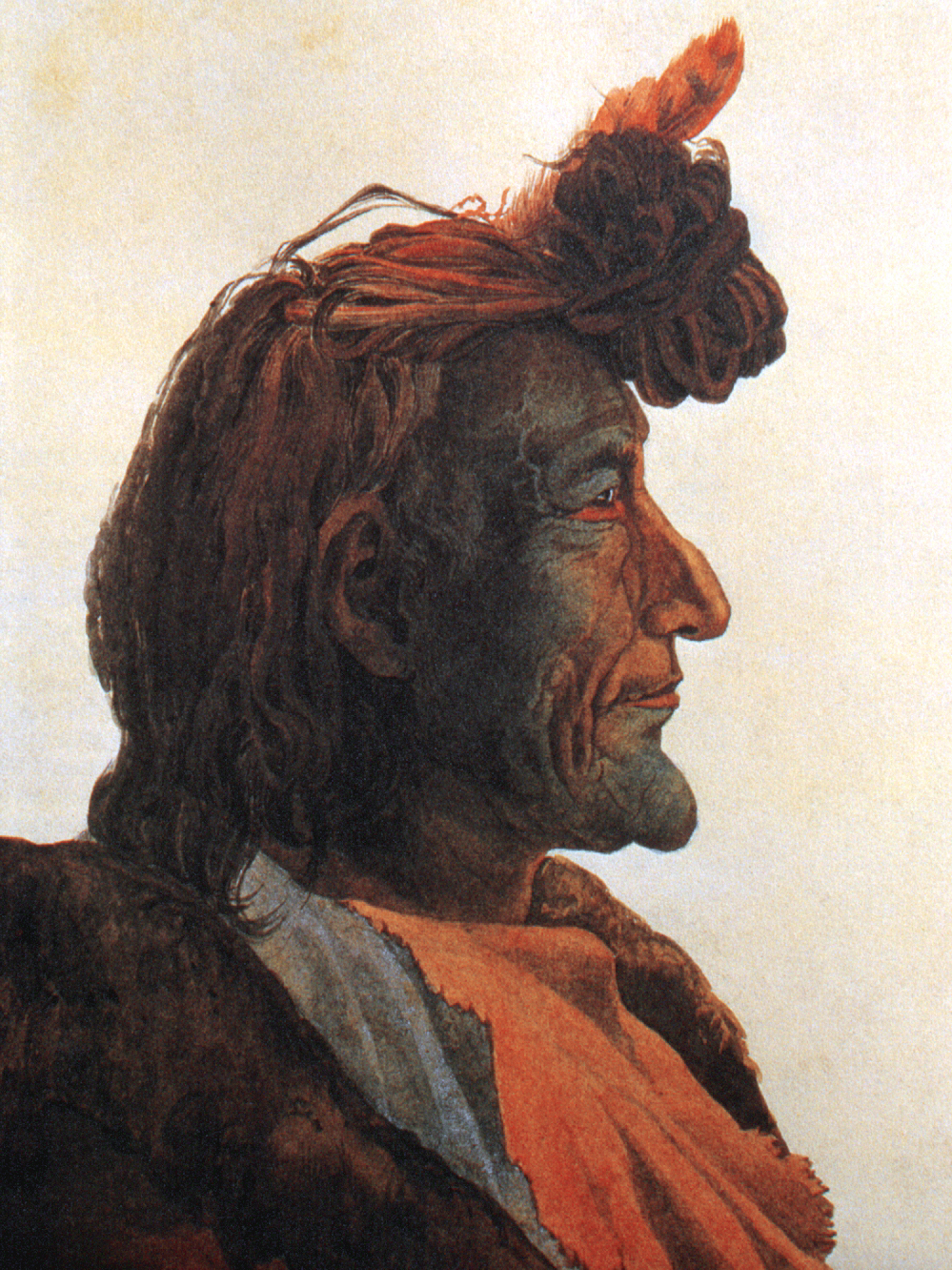 Pioch-Kiäiu, Piegan Blackfeet Man. Watercolor by Karl Bodmer.